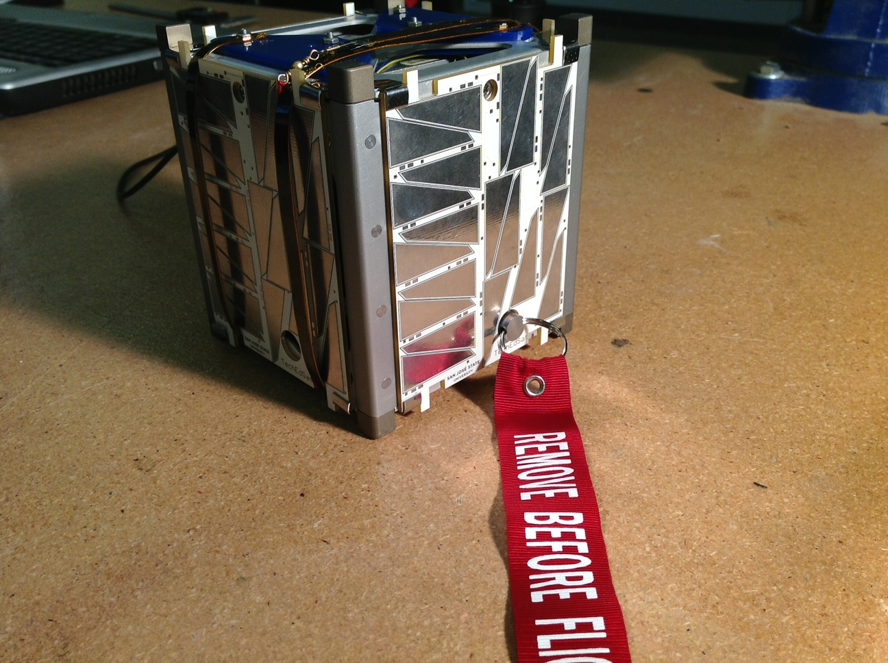 Photograph of the TechEdSat EDU, as taken by Aaron Cohen (CHeeseJaguar) on 27 March 2012